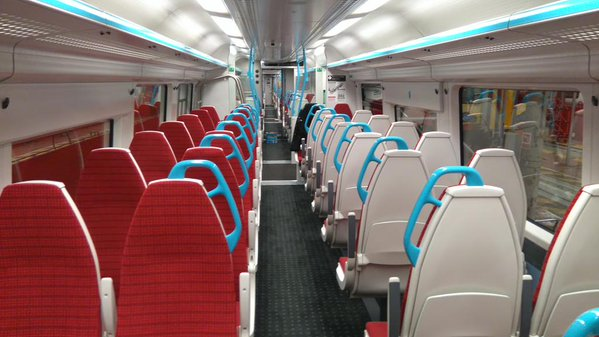 Bombardier built Class 387/2 Gatwick Express interior (Standard Class)